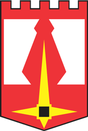 Novokuznetsk (Kemerovo oblast), soviet coat of arms